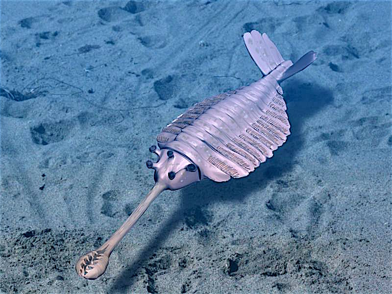 Opabinia regalis, from the Cambrian Burgess Shale. Digital.